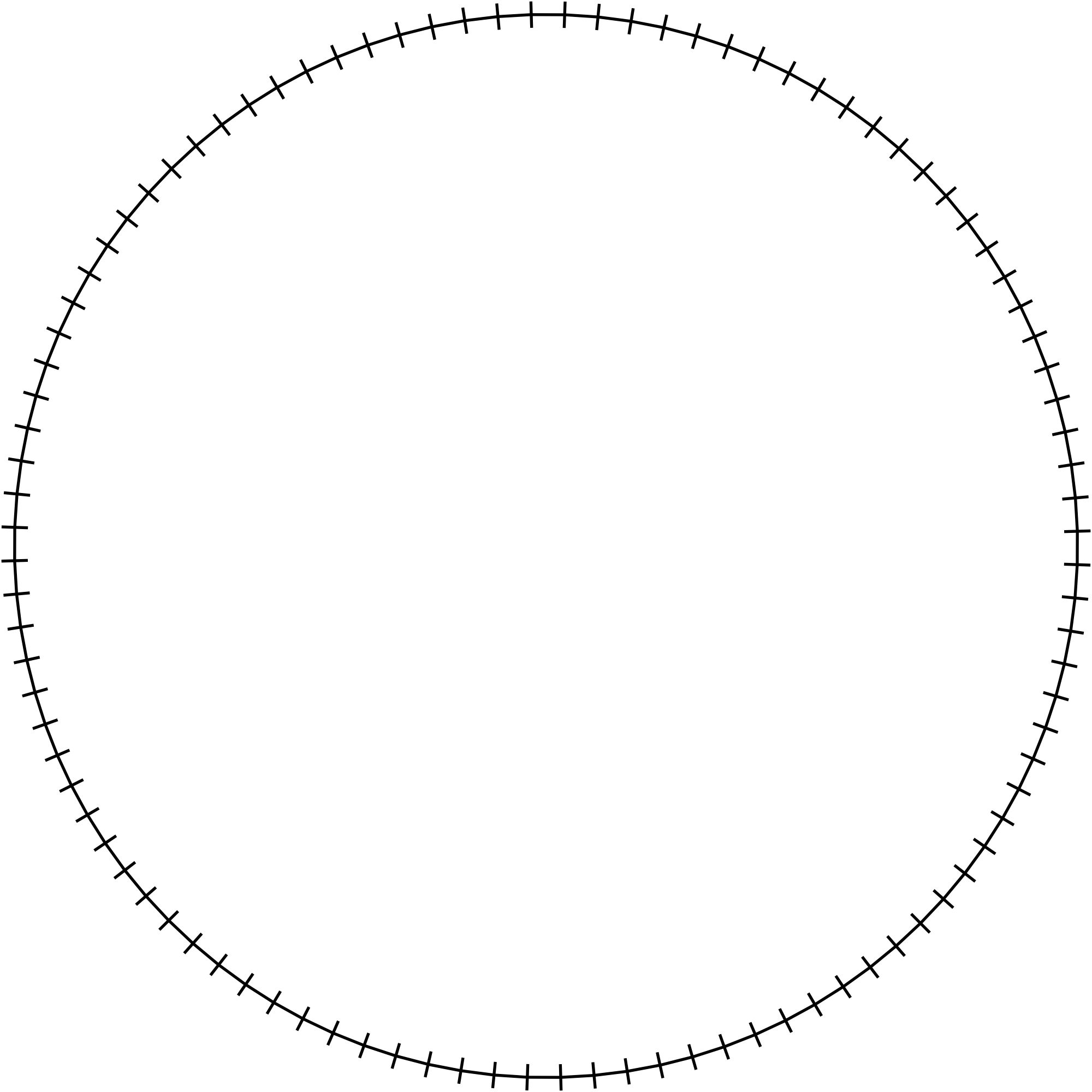 Regular hectagon with vertices marked, made in Inkscape.